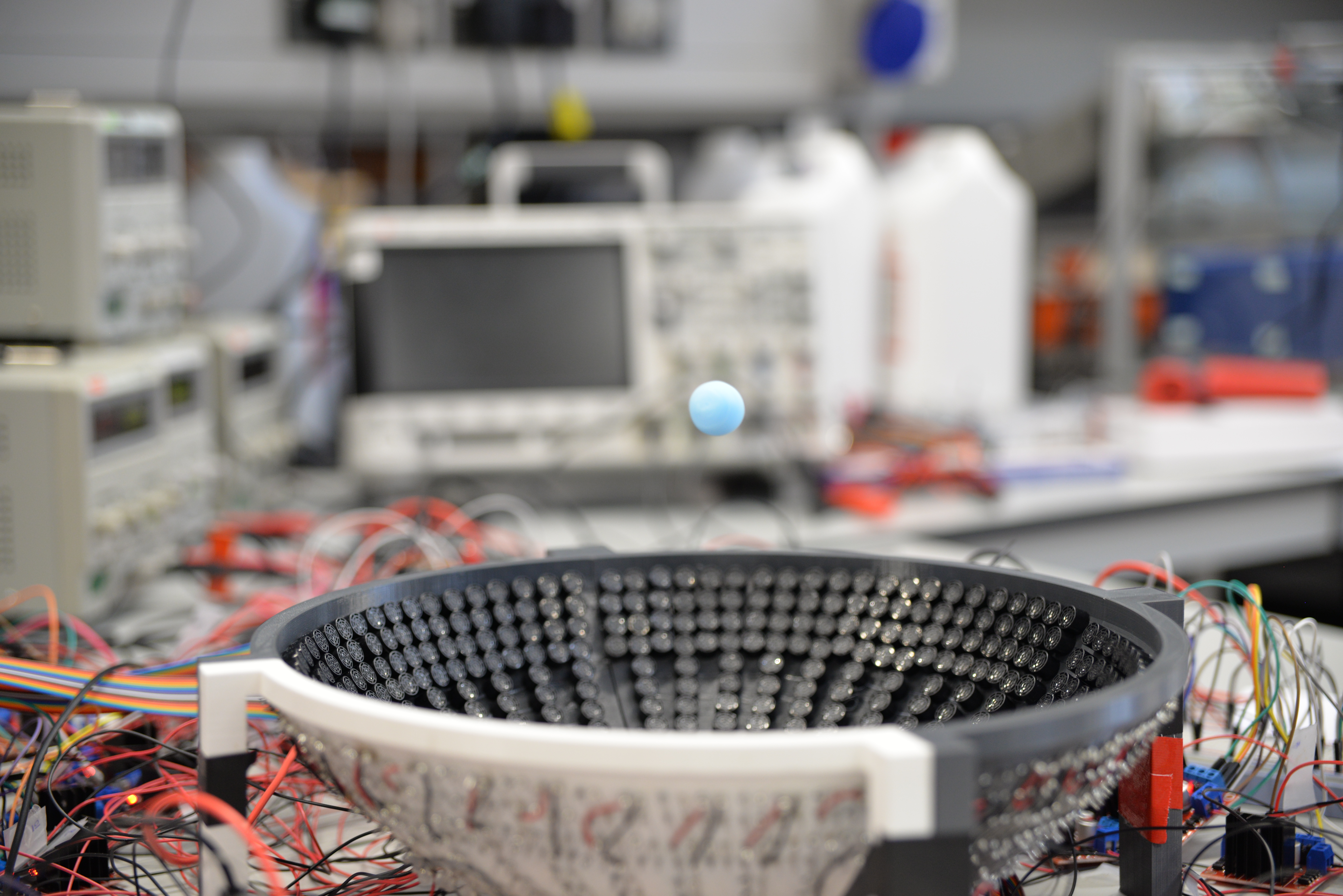 Acoustic vortices can levitate large object but it is highly unstable. The technique of acoustic virtual vortex switches between right and left-hand rotation of vortex, thereby stabilizing the particles in place. See the publication by Marzo et al. for the details on the technique. Marzo, A., Caleap, M. & Drinkwater, B. W. Acoustic Virtual Vortices with Tunable Orbital Angular Momentum for Trapping of Mie Particles. Phys. Rev. Lett. 120, 44301 (2018).